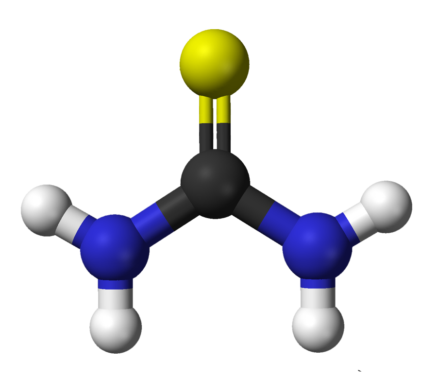 Ball and stick model of the thiourea molecule.